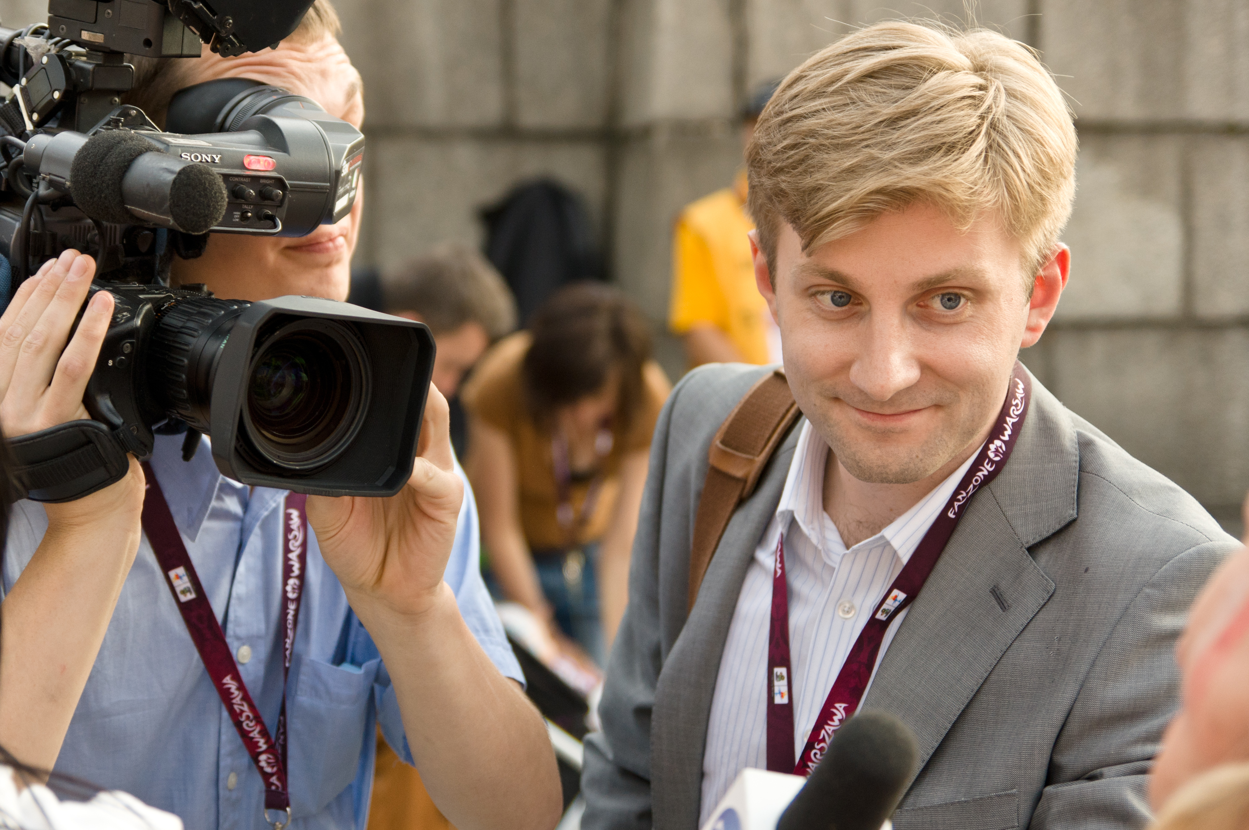 Krzysztof Bandych, Polish journalist (nSport channel) at Fanzone Warsaw, just after the end of Poland-Greece match. UEFA Euro 2012, Poland.